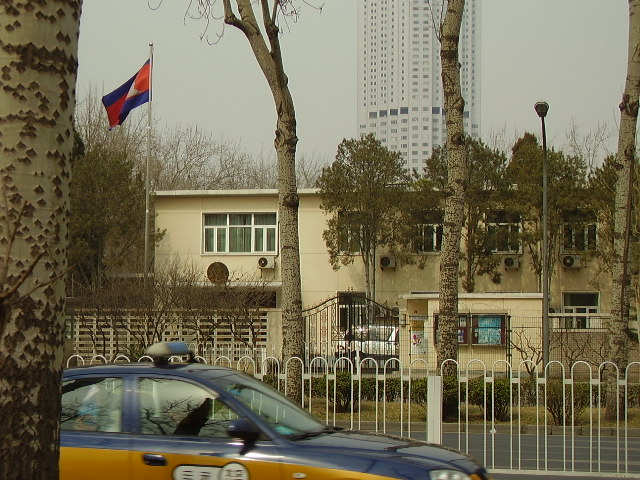 Cambodian Embassy in Beijing